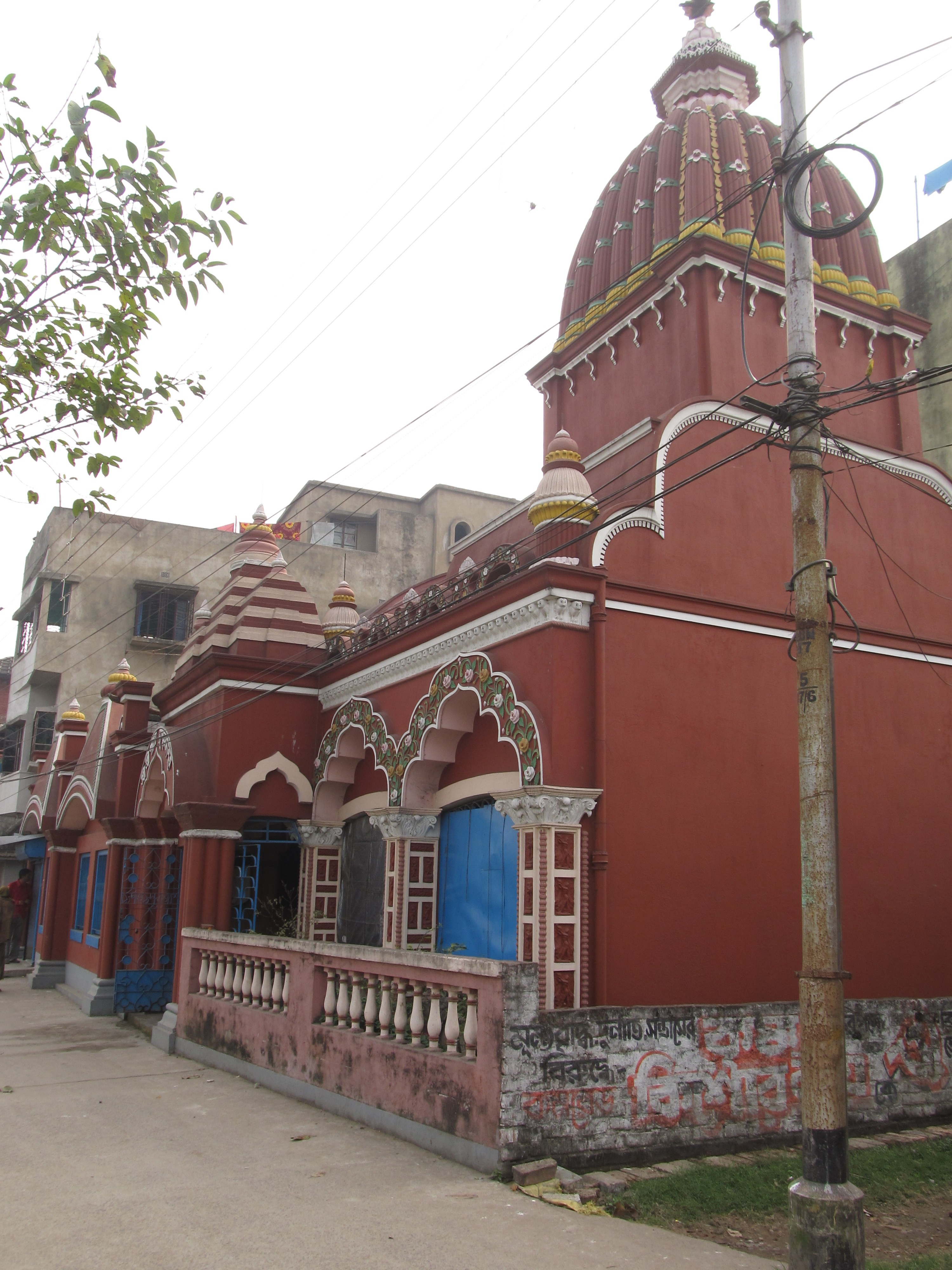 Photohgraphed at Santragachi.